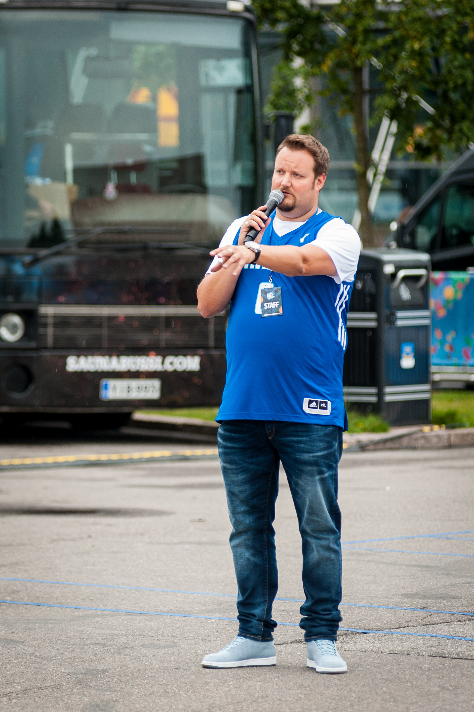 Finnish stand-up comic Sami Hedberg at EuroBasket 2017's Fan Zone in Helsinki, Finland.